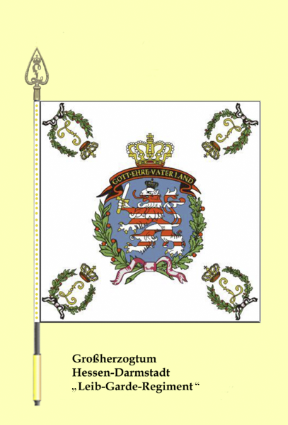 Colors of the Count of Hessen-Darmstadt's "Lifeguard-Infantry Regiment"